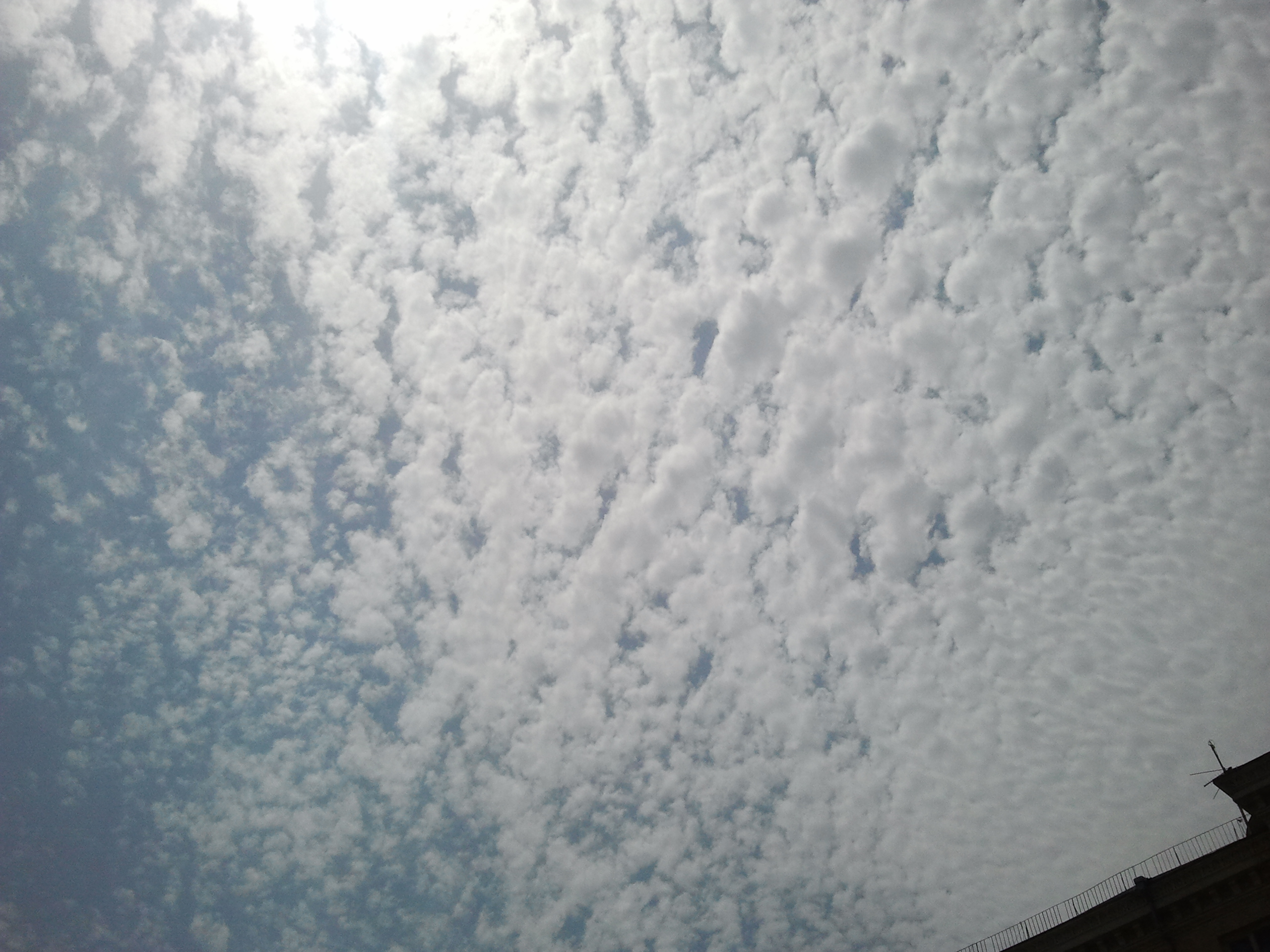 Clouds of Azerbaijan